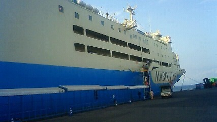 Queen Coral Plus. Queen Coral Plus, Kagoshima.